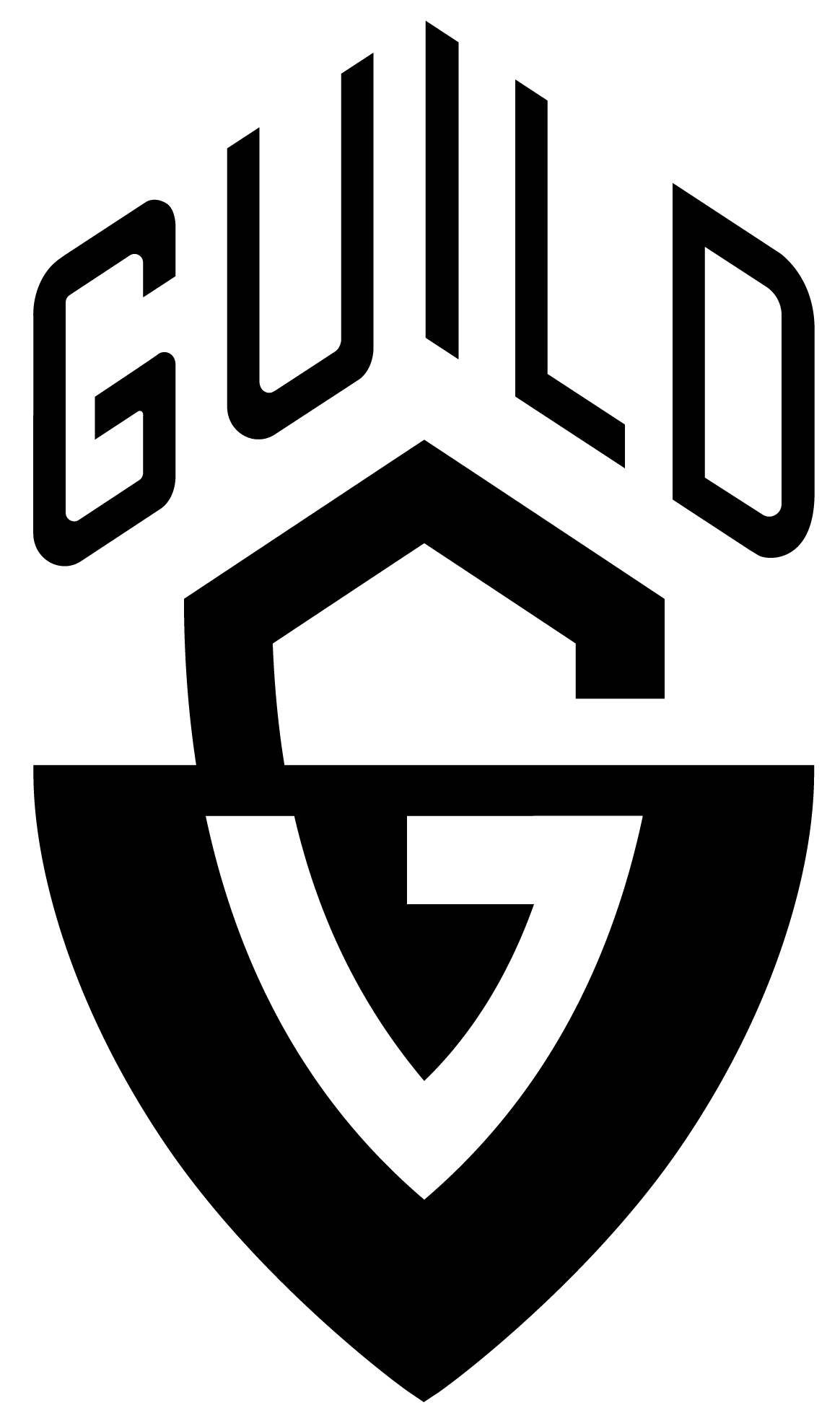 official guild logo